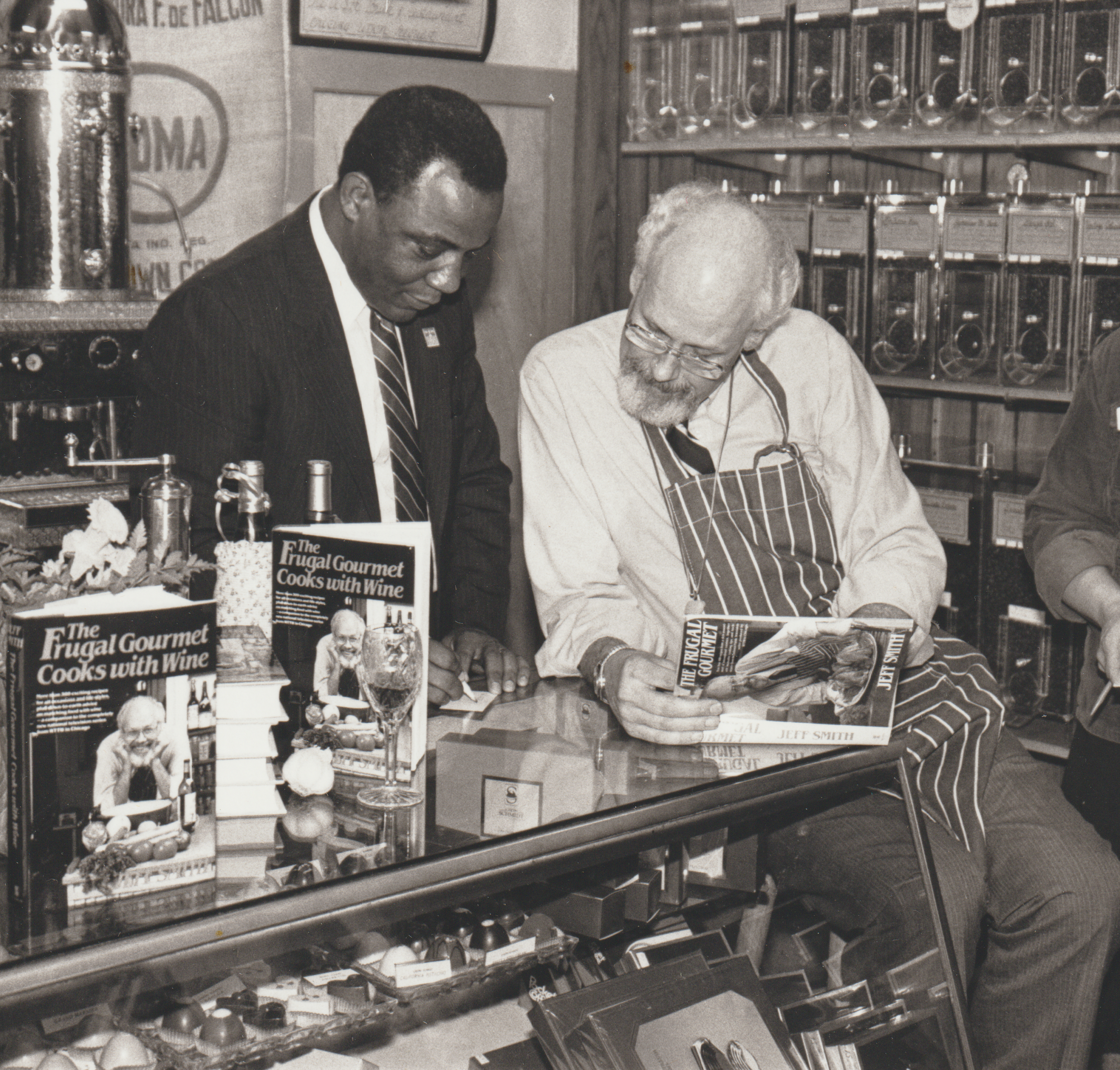 Philadelphia Mayor Wilson Goode with Jeff Smith, The Frugal Gourmet, at Fante's Kitchen Shop (1986)